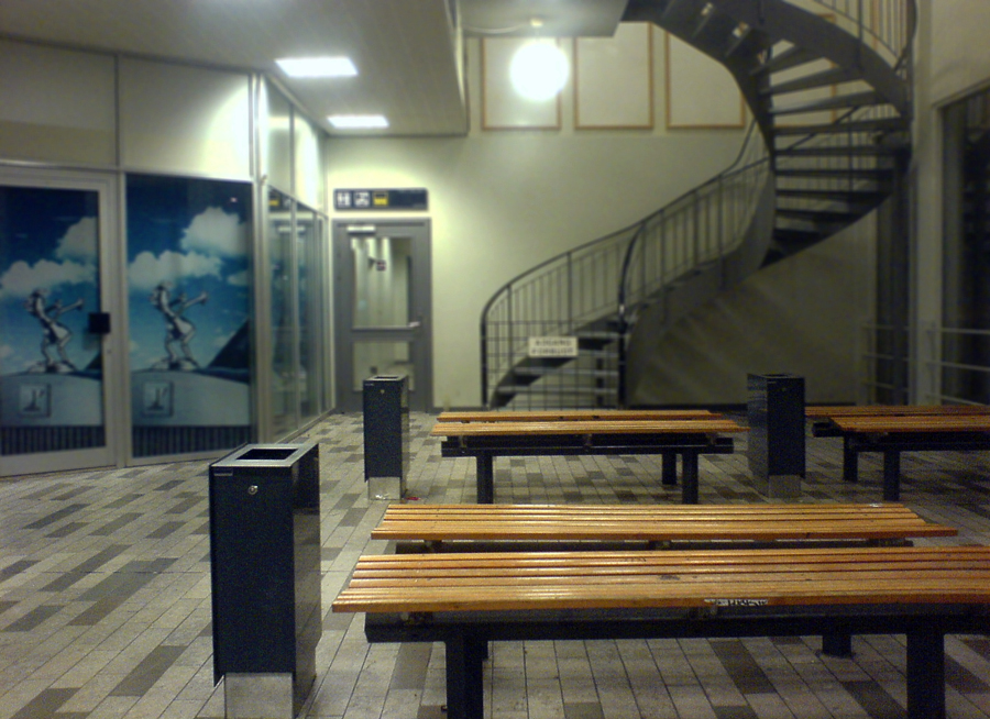 Arrival at the train station in Nykøbing Falster, Denmark